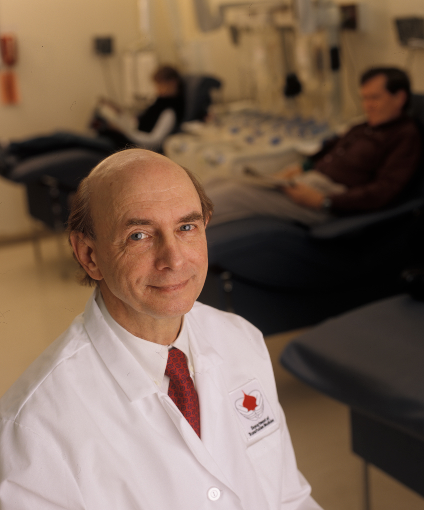 Distinguished NIH Investigator Chief, Infectious Diseases Section Associate Director of Research Department of Transfusion Medicine Dr. Alter co-discovered the Australia antigen, a key to detecting hepatitis B virus. In 2000, Dr. Alter was awarded the prestigious Albert Lasker Clinical Medical Research Award and in 2002, he became the first Clinical Center scientist elected to the National Academy of Sciences (NAS) and in that same year was elected to the Institute of Medicine. Only a small number of scientists nationally are elected to both these scientific societies.